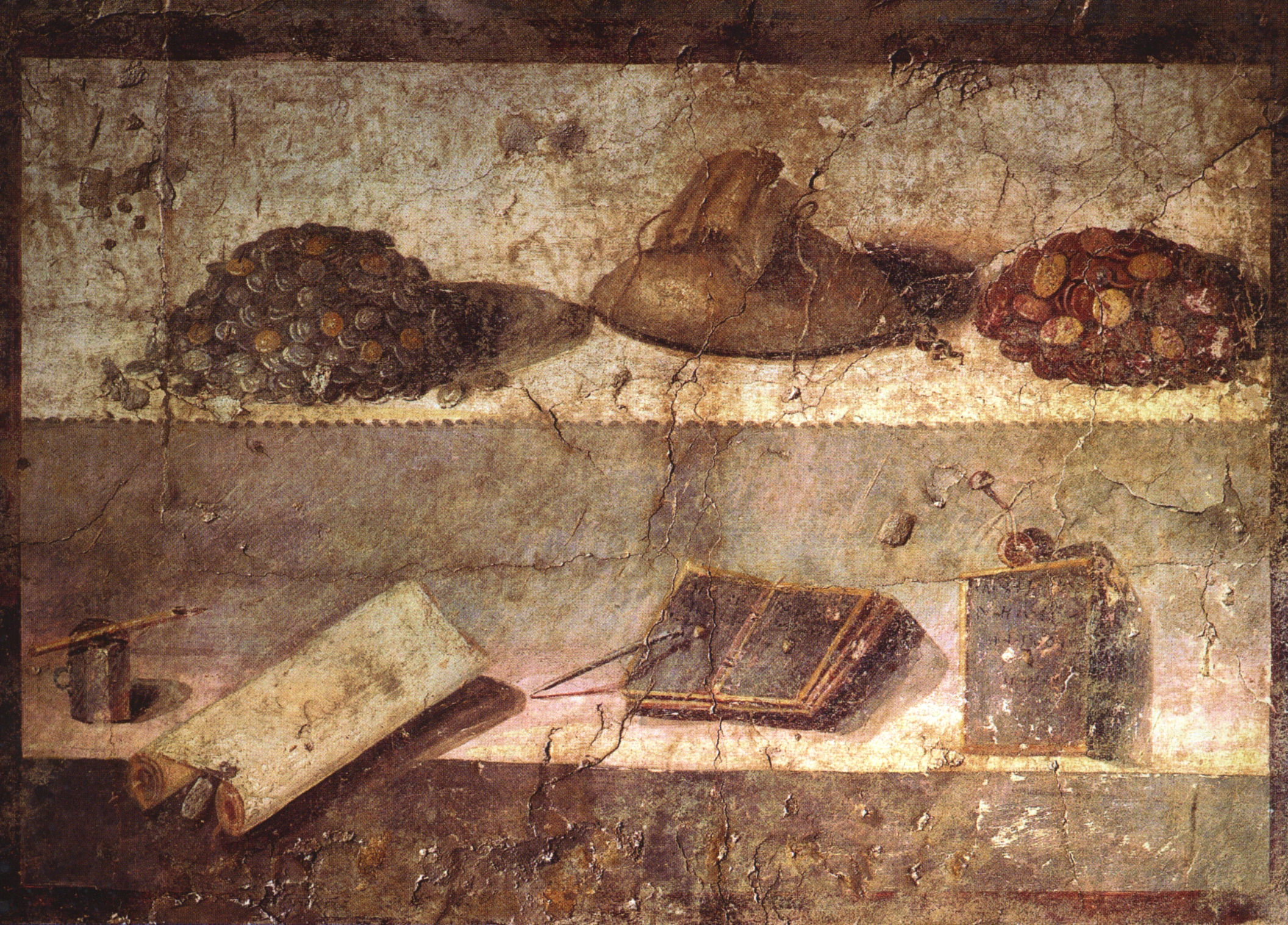 Money pouch between gold heaps and writing utensils (below). Roman fresco from the Praedia of Julia Felix in Pompeii. Museo Archeologico Nazionale (Naples)